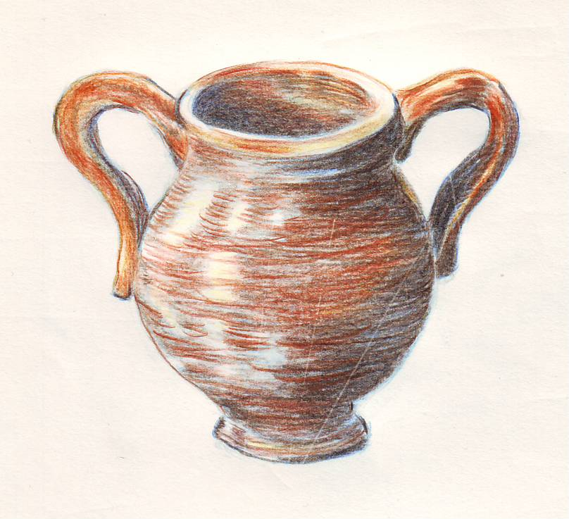 Jar of clay for honey. Catalan pottery (Spain).